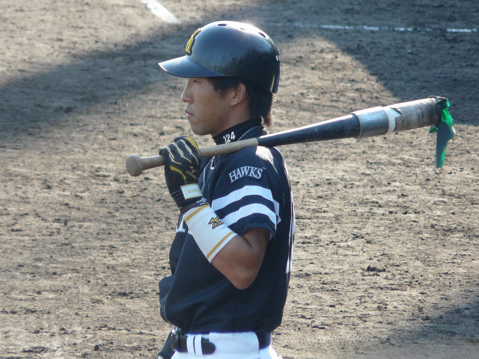 Kyohei Kamezawa, infielder of the Fukuoka SoftBank Hawks, at Hanshin Naruohama Baseball Ground.